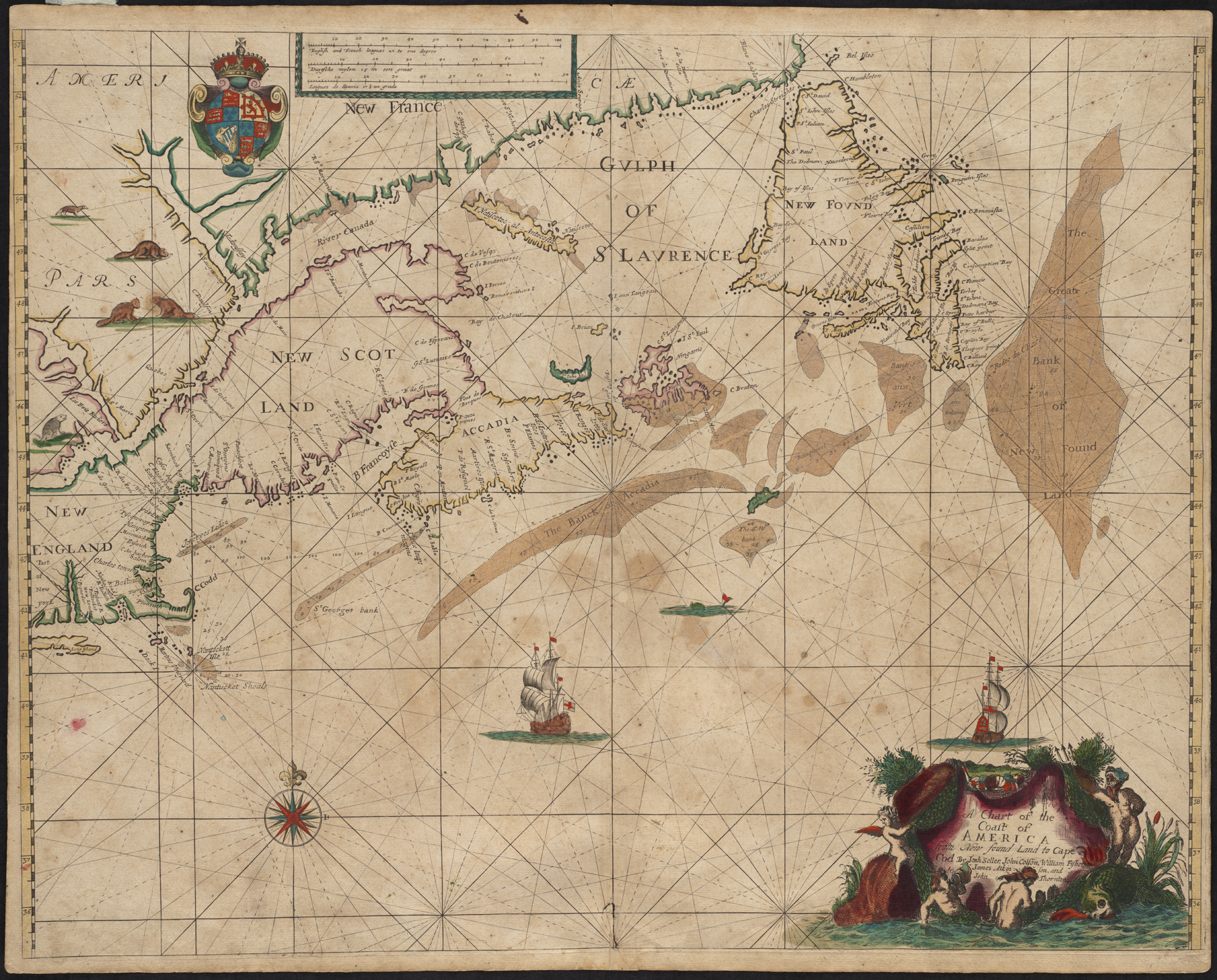 Zoom into this map at . Author: Seller, John Publisher: s.n. Date: [1675] Location: Atlantic Provinces Scale: Scale [ca. 1:15,800,000] Call Number: G3410 1675.S45 Published in Sellers Atlas Maritimus, the earliest general marine atlas produced in England, this was the first English chart of New England waters. It clearly shows the northern navigation routes with soundings, as well as the islands and lucrative fishing banks off the coasts of Nova Scotia and Newfoundland. Boston and Charlestown are also located and named. While the Atlas Maritimus was Sellers first attempt at breaking the Dutch monopoly on the publication of nautical atlases, he is also credited with the inception of The English Pilot, the standard guide for English navigators throughout the 18th century.